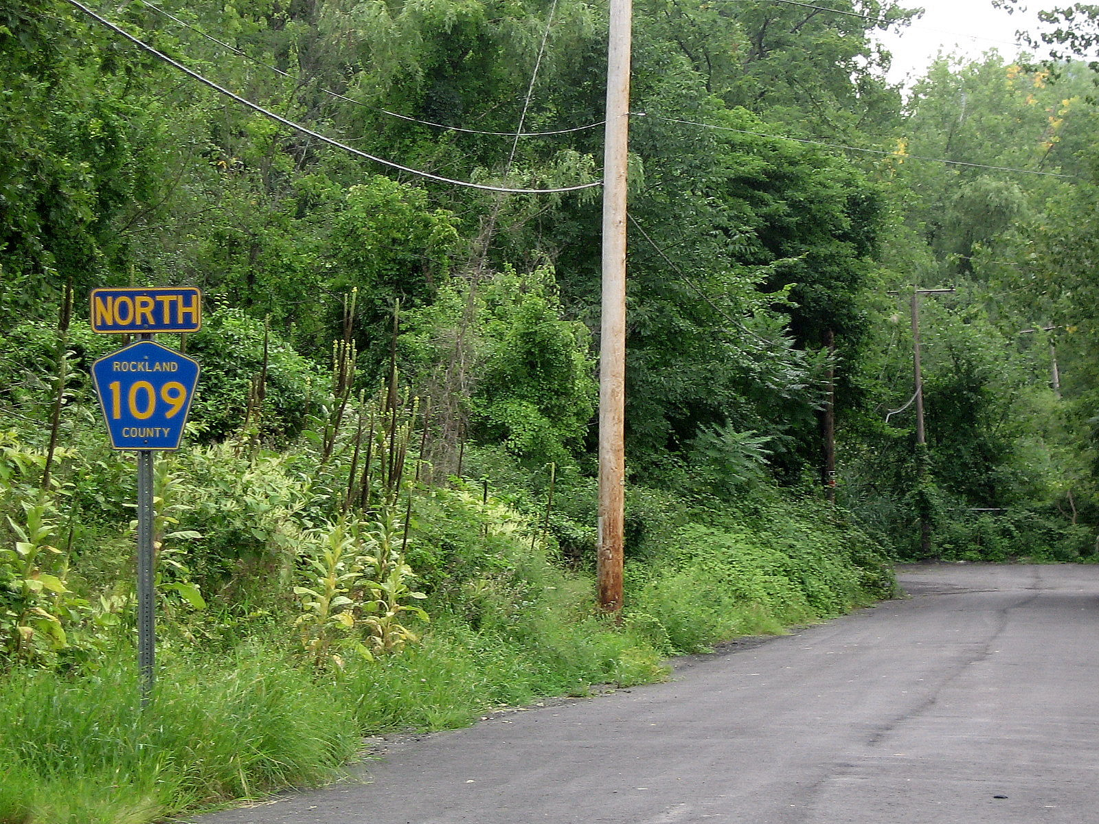 CR 109's southern terminus at the dead end ahead. Again, the sign is facing the wrong direction.